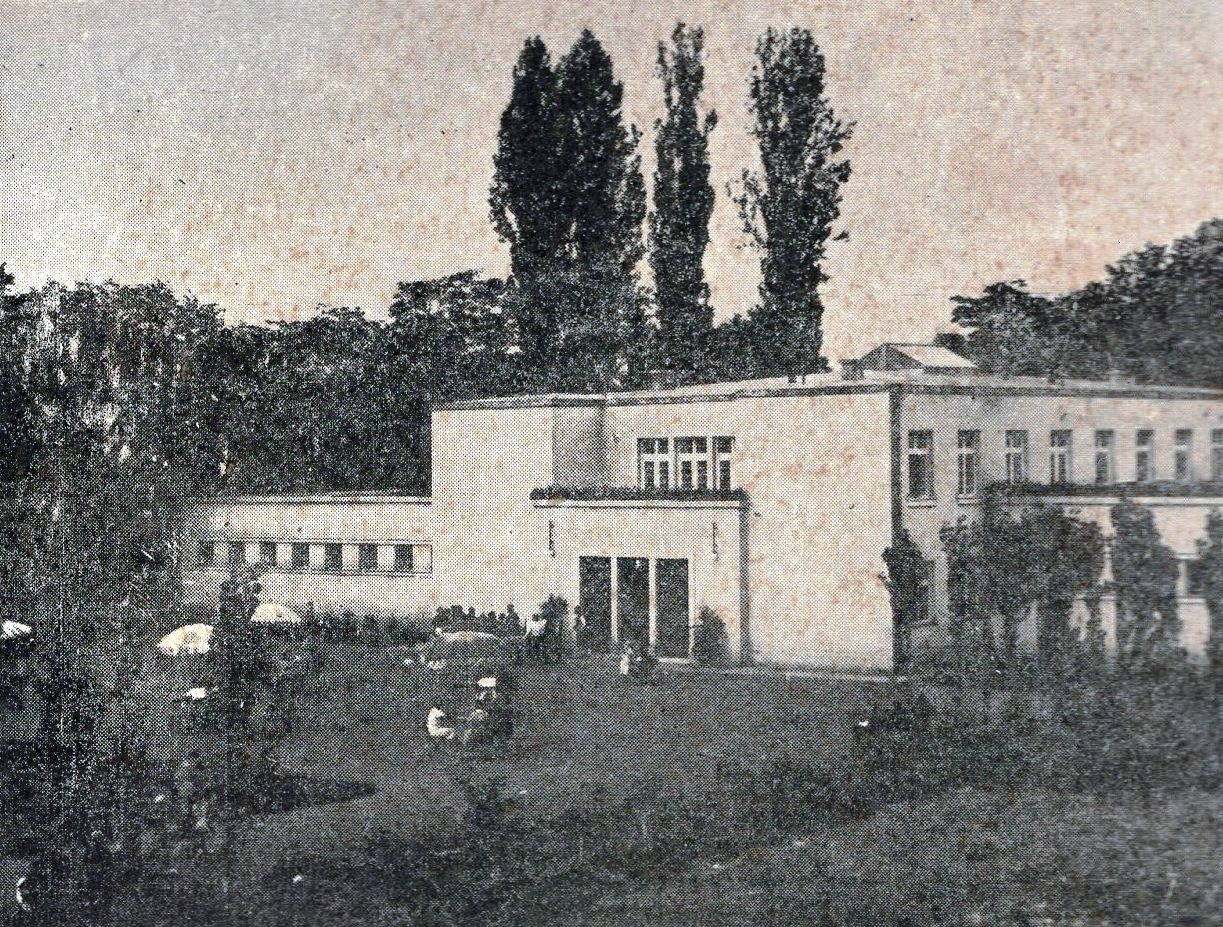 Niška Banja, an old postcard This media file is produced by Wikipedian in Residence in Category:Wikipedian in Residence at DARM in 2016.